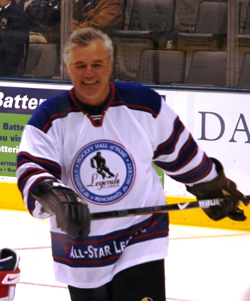 Dave Ellett played with the All-Star Legends 2008 in Toronto